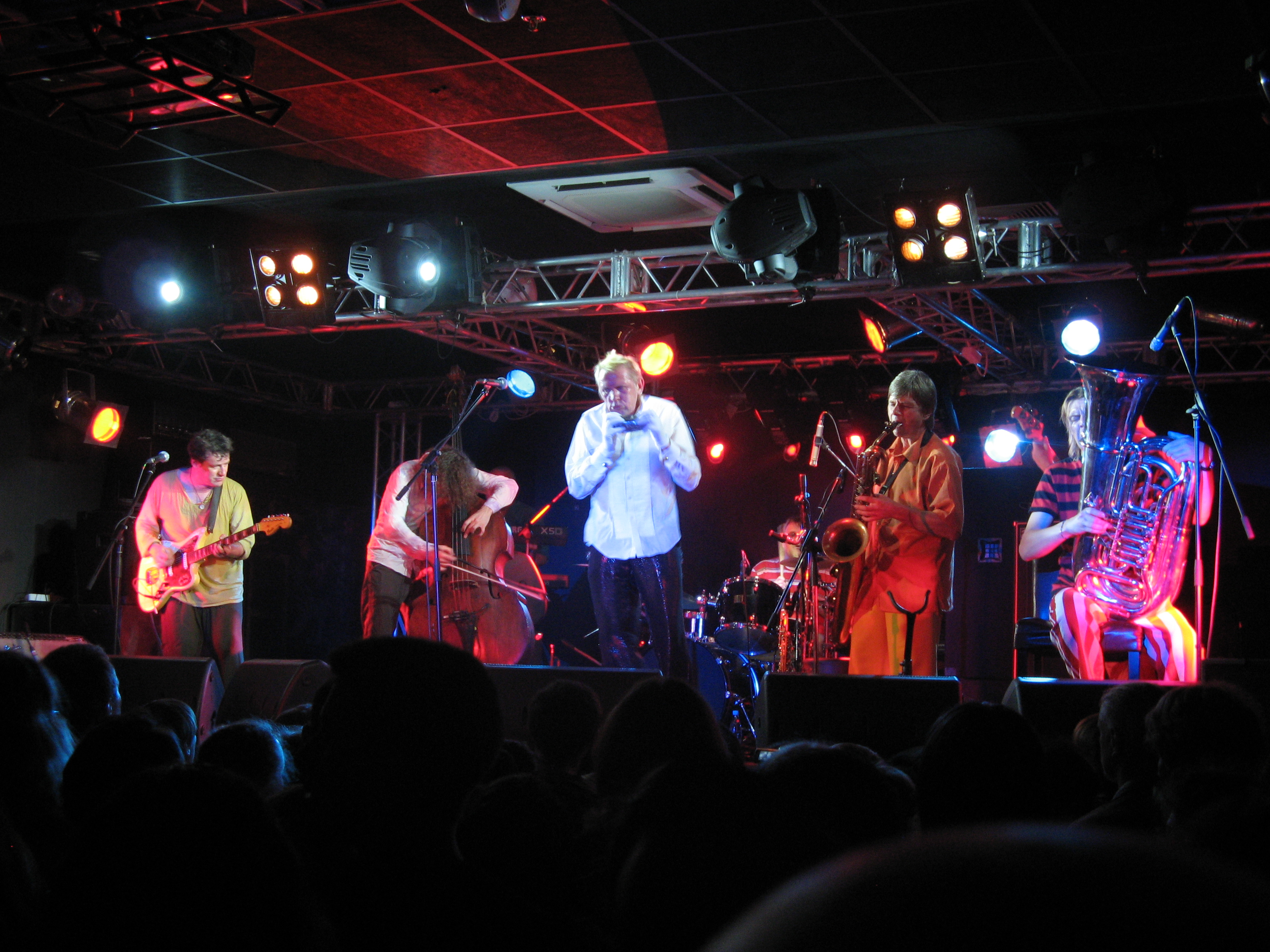 Russian rock band Auctyon performing in Saint-Petersburg on July 9 2009.